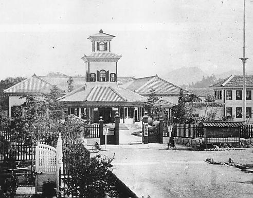 Yamagata Prefectural Office in the Meiji era